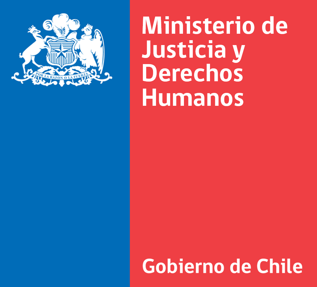 Logo of the Ministry of Justice.